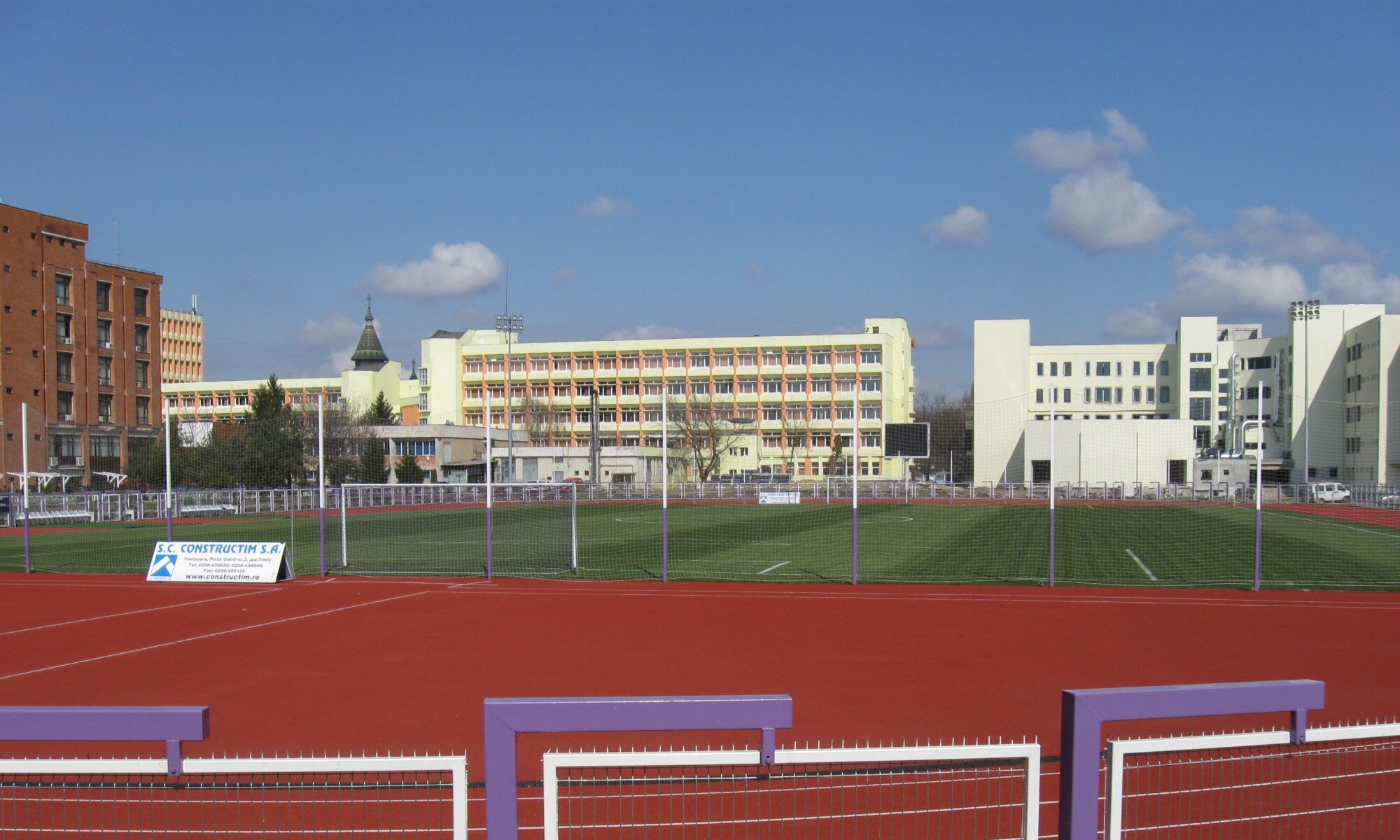 Stadium No. 1 of the Faculty of Mechanical Engineering of Timisoara.